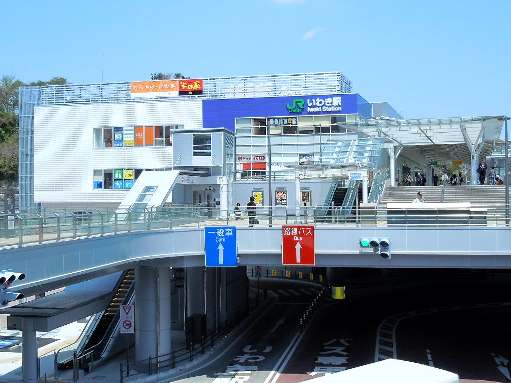 Iwaki Station building